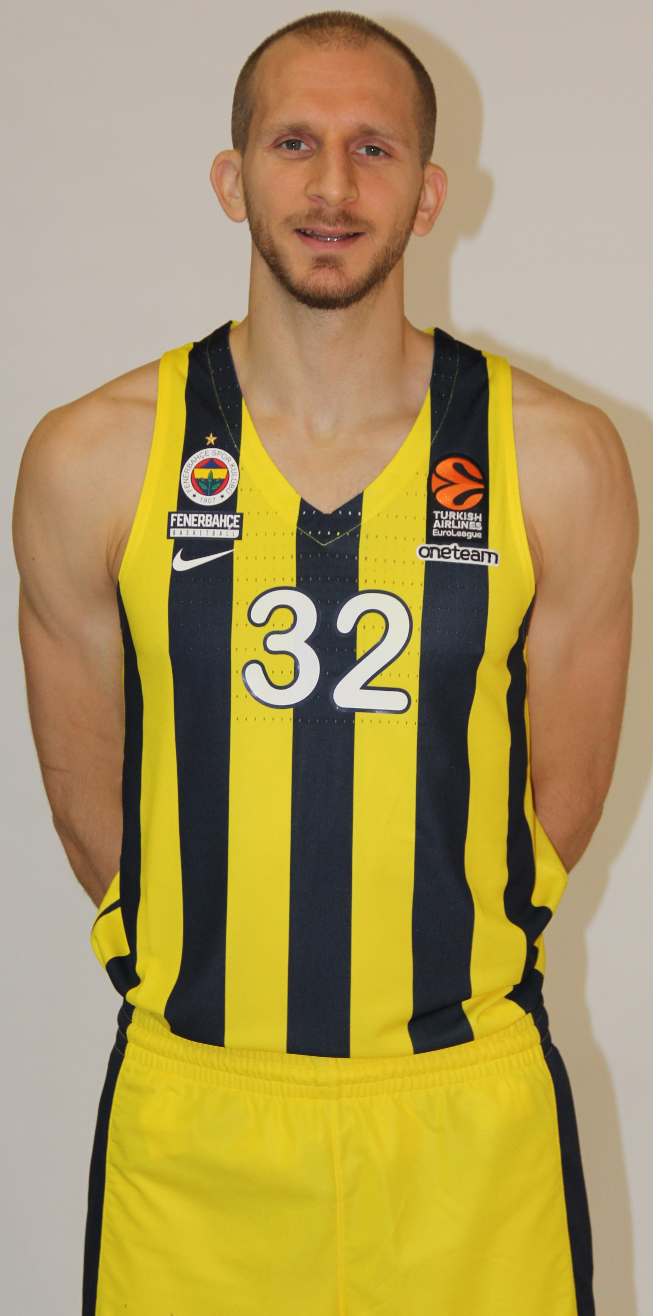 Sinan Güler Fenerbahçe Basketball Media Day 20180925